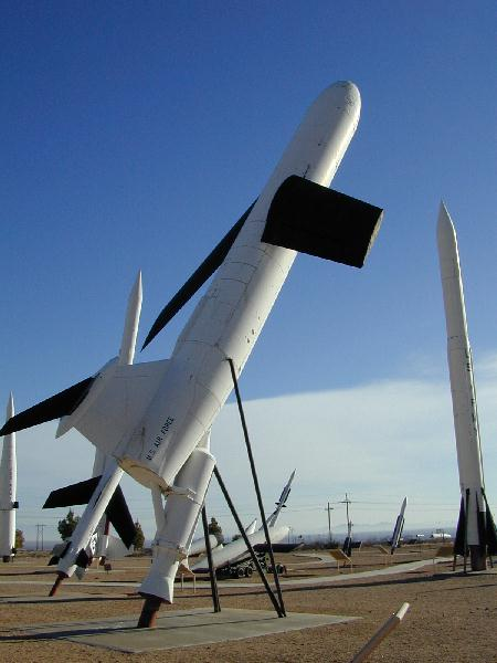 The Matador-Mace missile. From the source: This large missile was about the same size and weight of a small jet fighter. It was capable of carrying a conventional or nuclear warhead. The first Matador launch was in 1955 with the first Mace in 1959. The main difference was in their guidance systems. In Feb. 1958 a Matador was launched from White Sands and flew to Wendover Air Force Base in Utah.